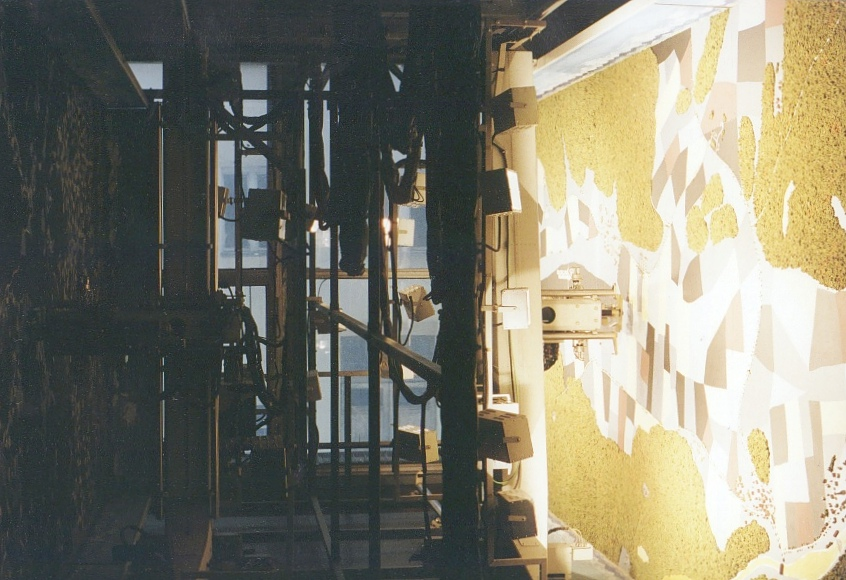 The original analog visual system of the TL39 flight simulator. Uses two terrain mock-ups and two cameras (the short-range right one is in use on the photo). Was installed at Moscow Aviation Institute until 2001. Photo by Sergey Khantsis